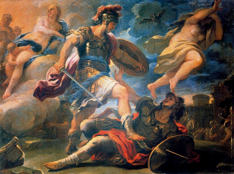 Aeneas and Turnuslabel QS:Lit,"Enea vince Turno" label QS:Len,"Aeneas and Turnus"